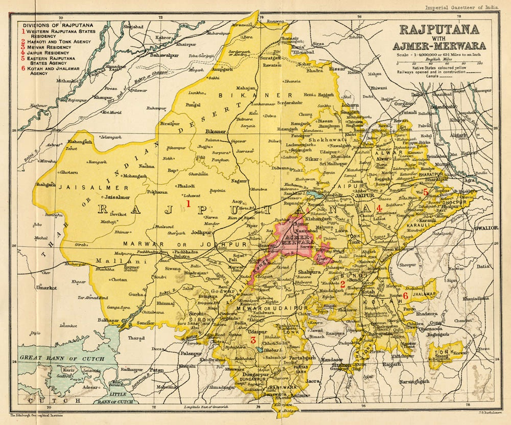 From "Imperial Gazetteer of India", 1907-1909. Category:History of Rajasthan